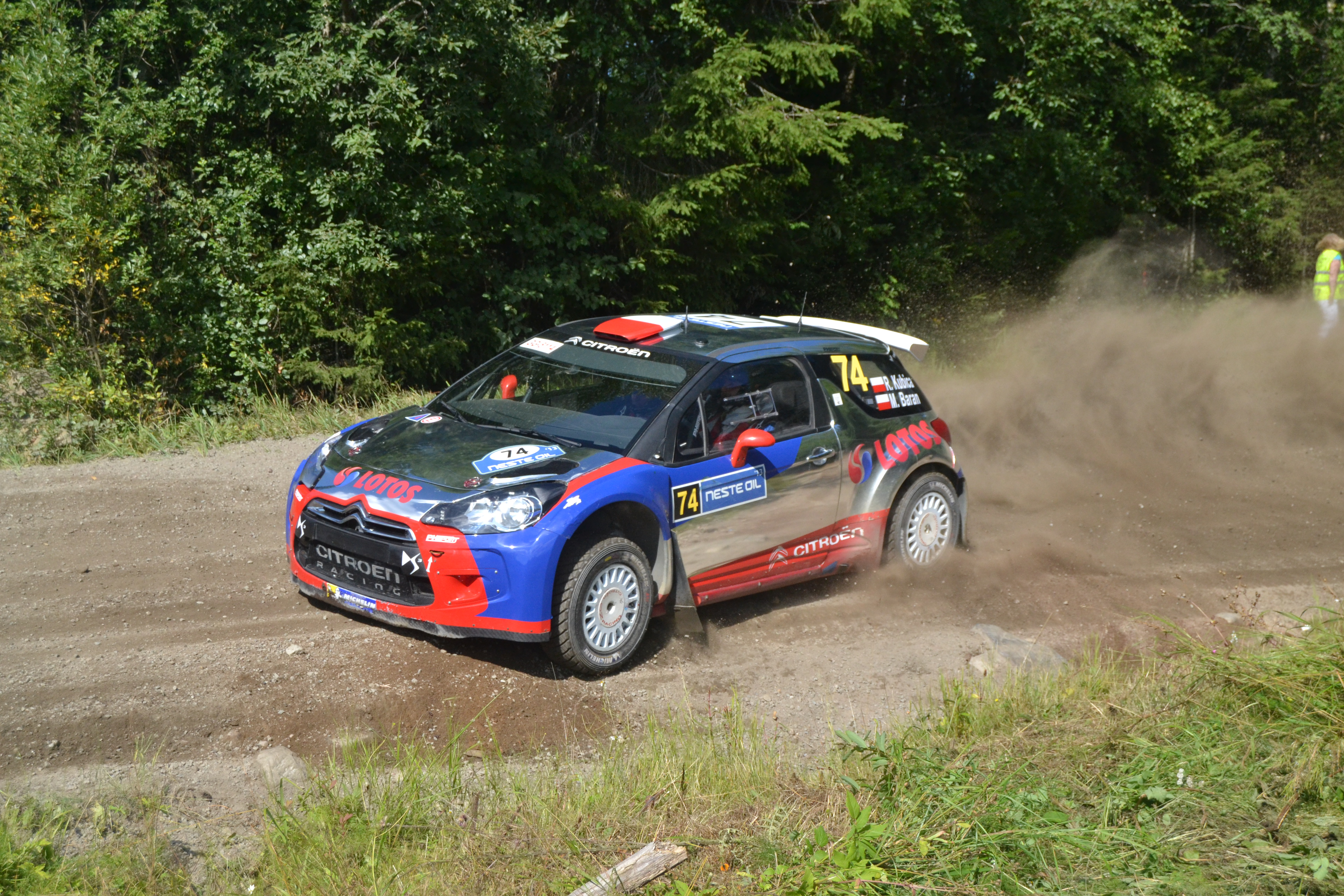 Robert Kubica at 2nd Surkee stage at 2013 Rally Finland